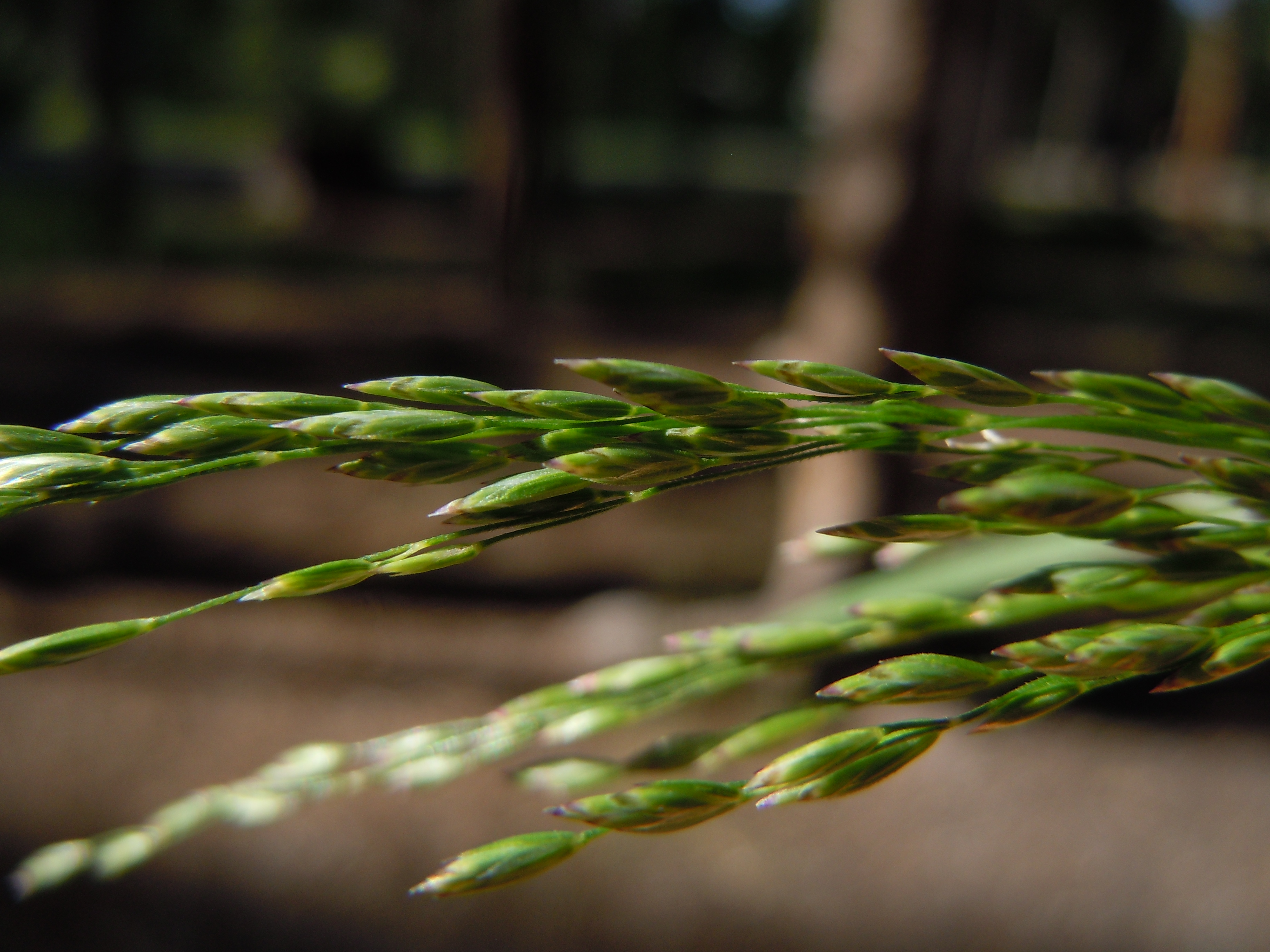 Poa palustris has relatively small spikelets (e.g., less than 4 mm) with tightly overlapping generally hairless florets.